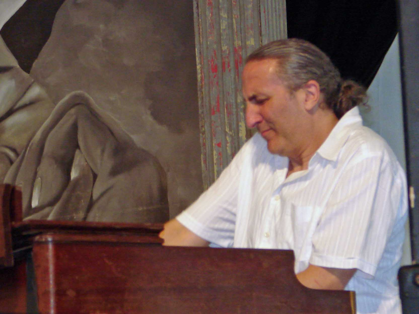 Joe Krown playing at the 2008 New Orleans Jazz & Heritage Festival (Southern Comfort Blues Tent)